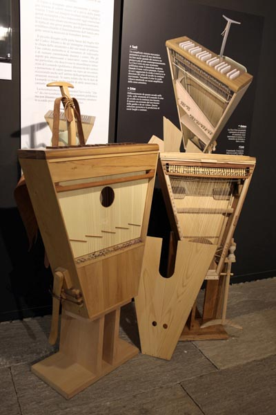 Leonardo3-EdoardoZanon-LeonardoDaVinci-Claviviola-Clavi-Viola-Harpsichord-Viola-Organista-strumentiMusicali-prototipo